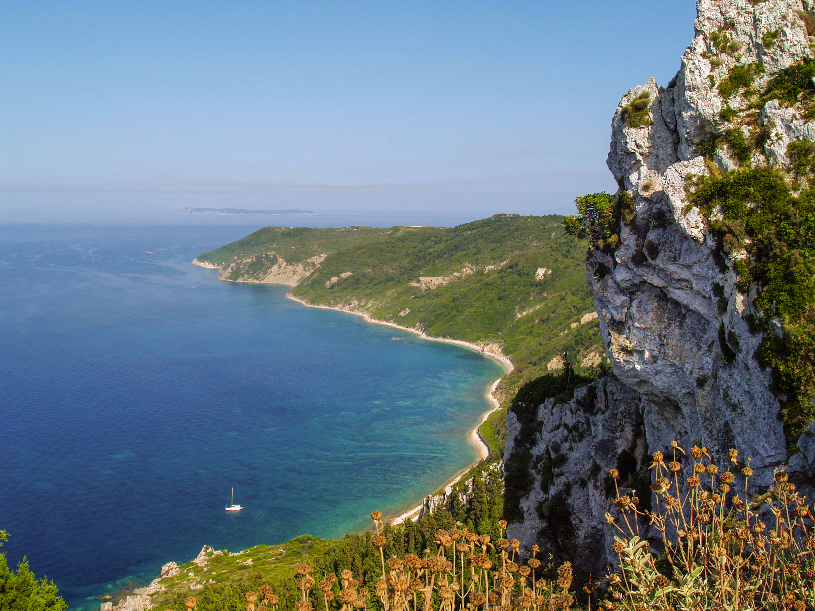 coast of Fiki